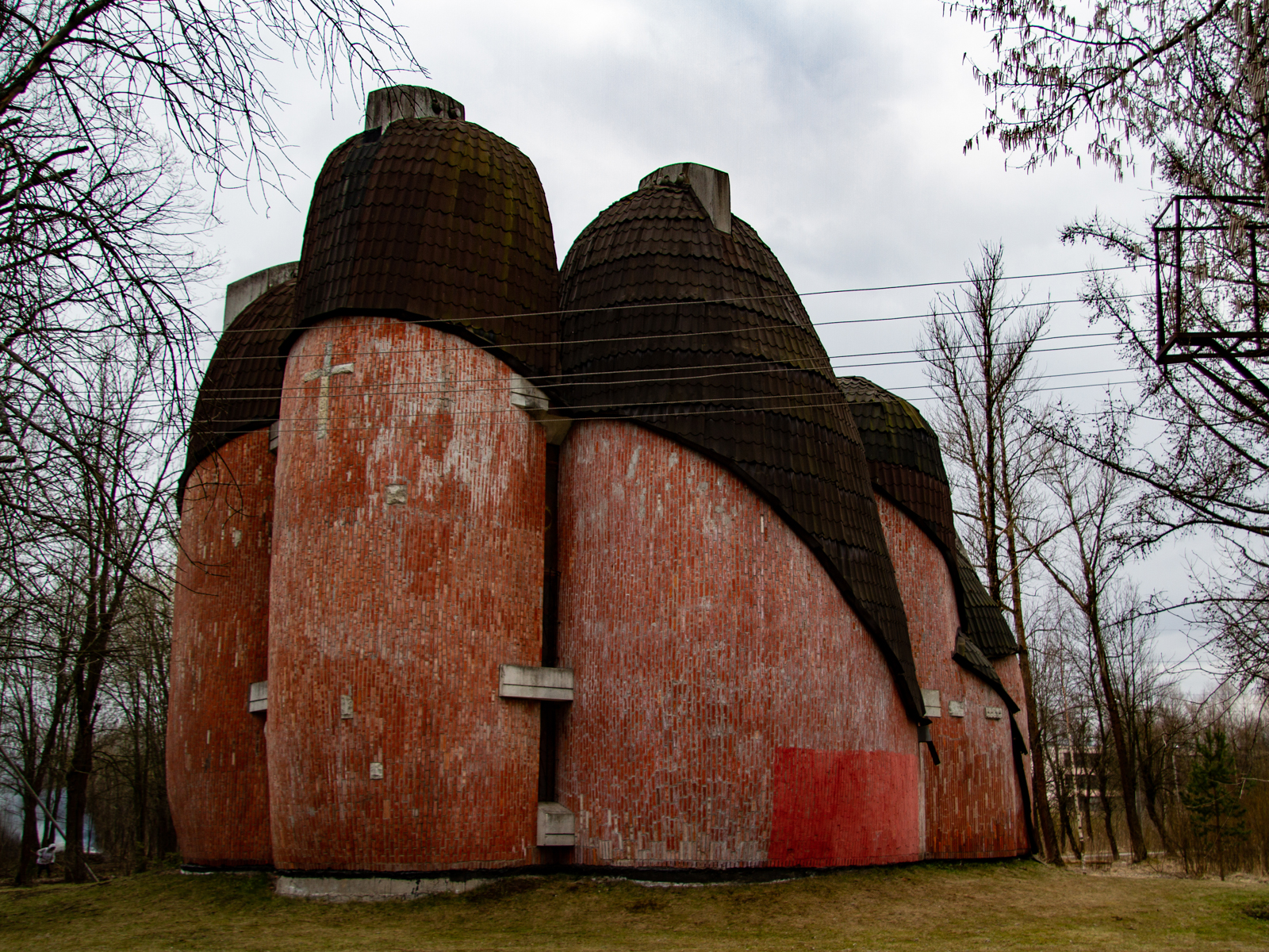 The Сhurch "Ark" (St. Petersburg, Russia)